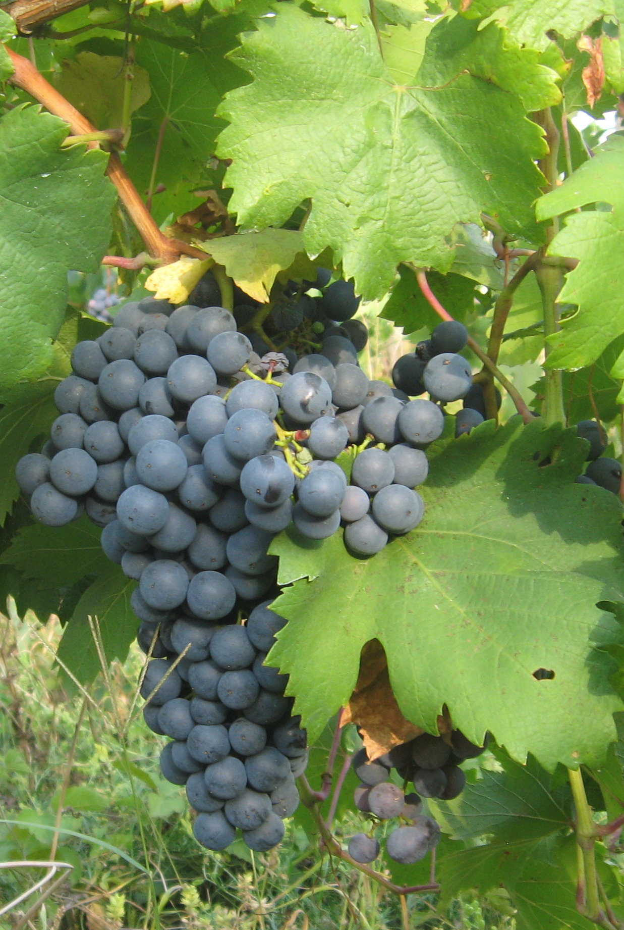 Rara Neagra grown at Equinox Vineyard, Olanesti, Moldova